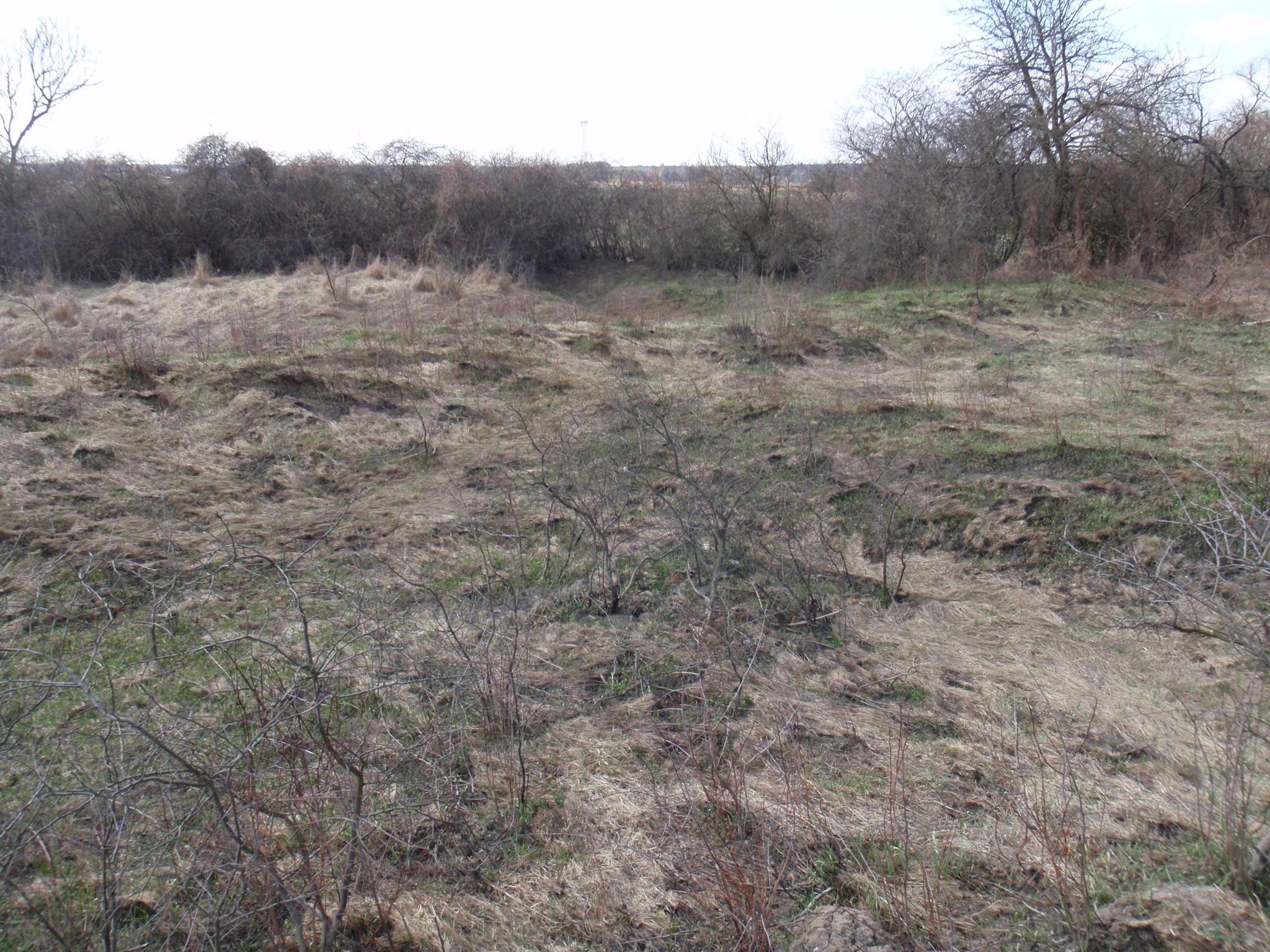 Jewish cemetery in Ryczywół, Masovian Voivodeship